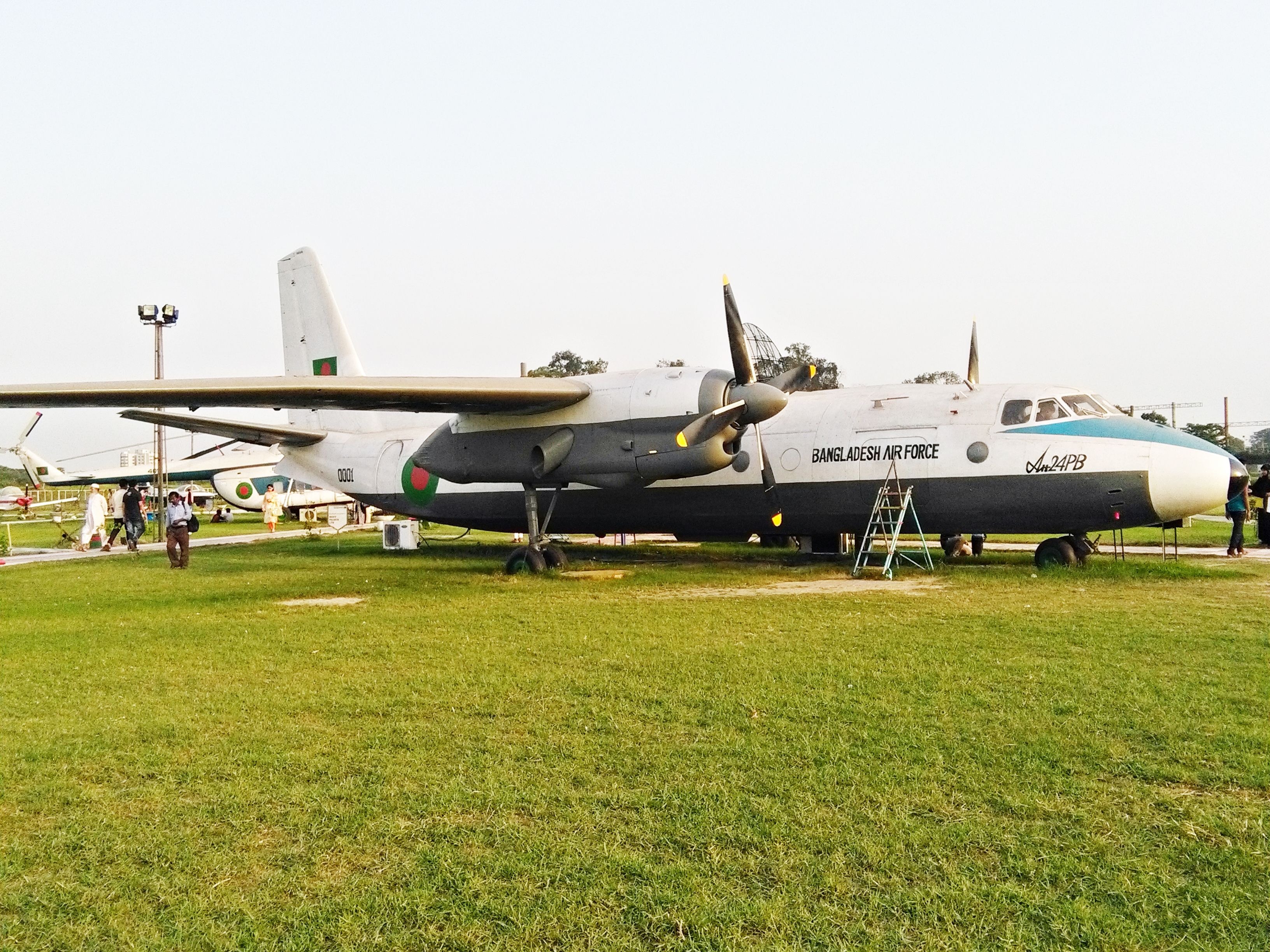 First Aircraft of Bangladesh